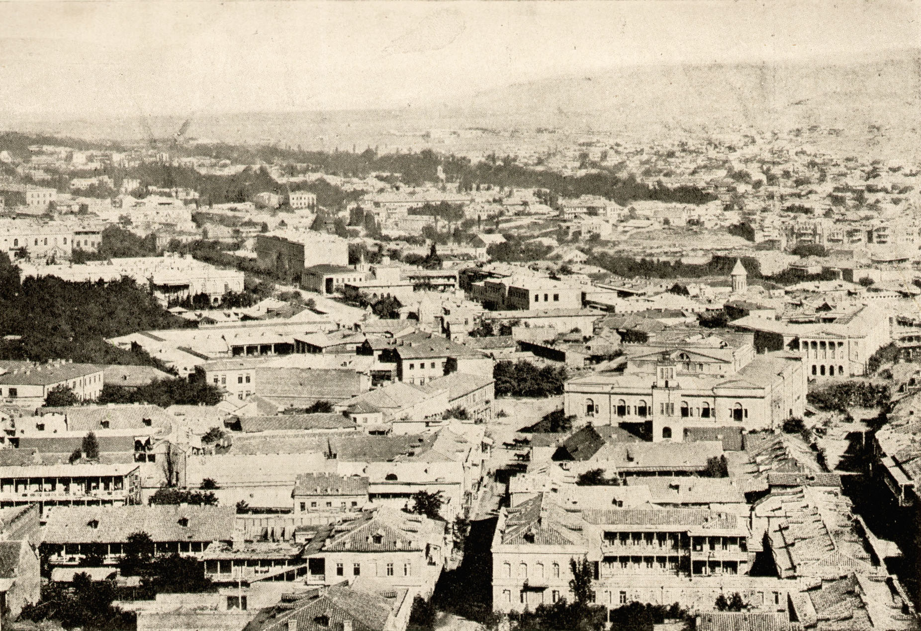 View to central part of Tbilisi, from Sololaki Range, XIX c.